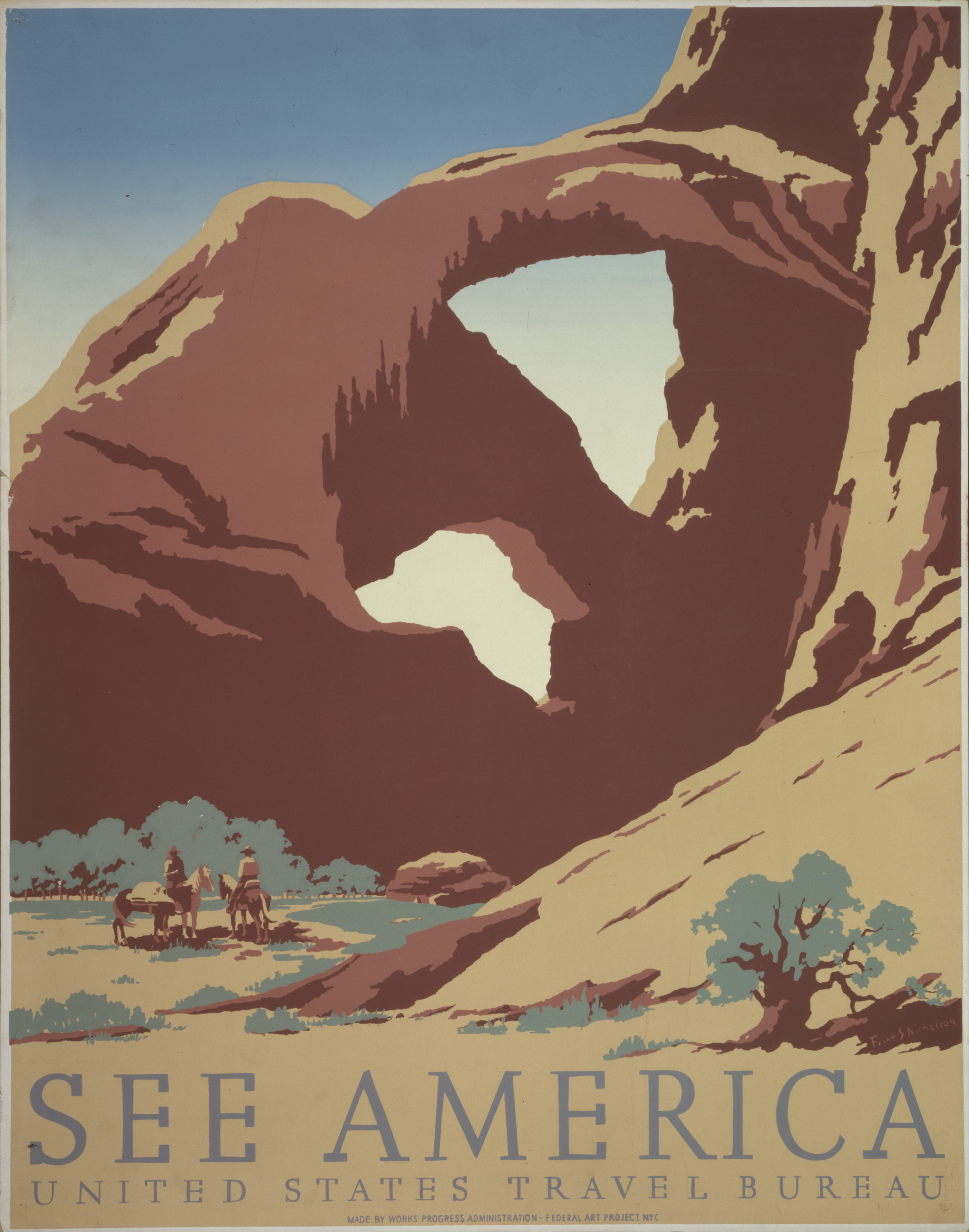 Ca. 1936-39 poster by Frank S. Nicholson depicting Double Arch in Arches National Park, Utah. The poster is one of seven commissioned by the US Travel Bureau and created by the Works Progress Administration Federal Art Project to promote the National Parks.